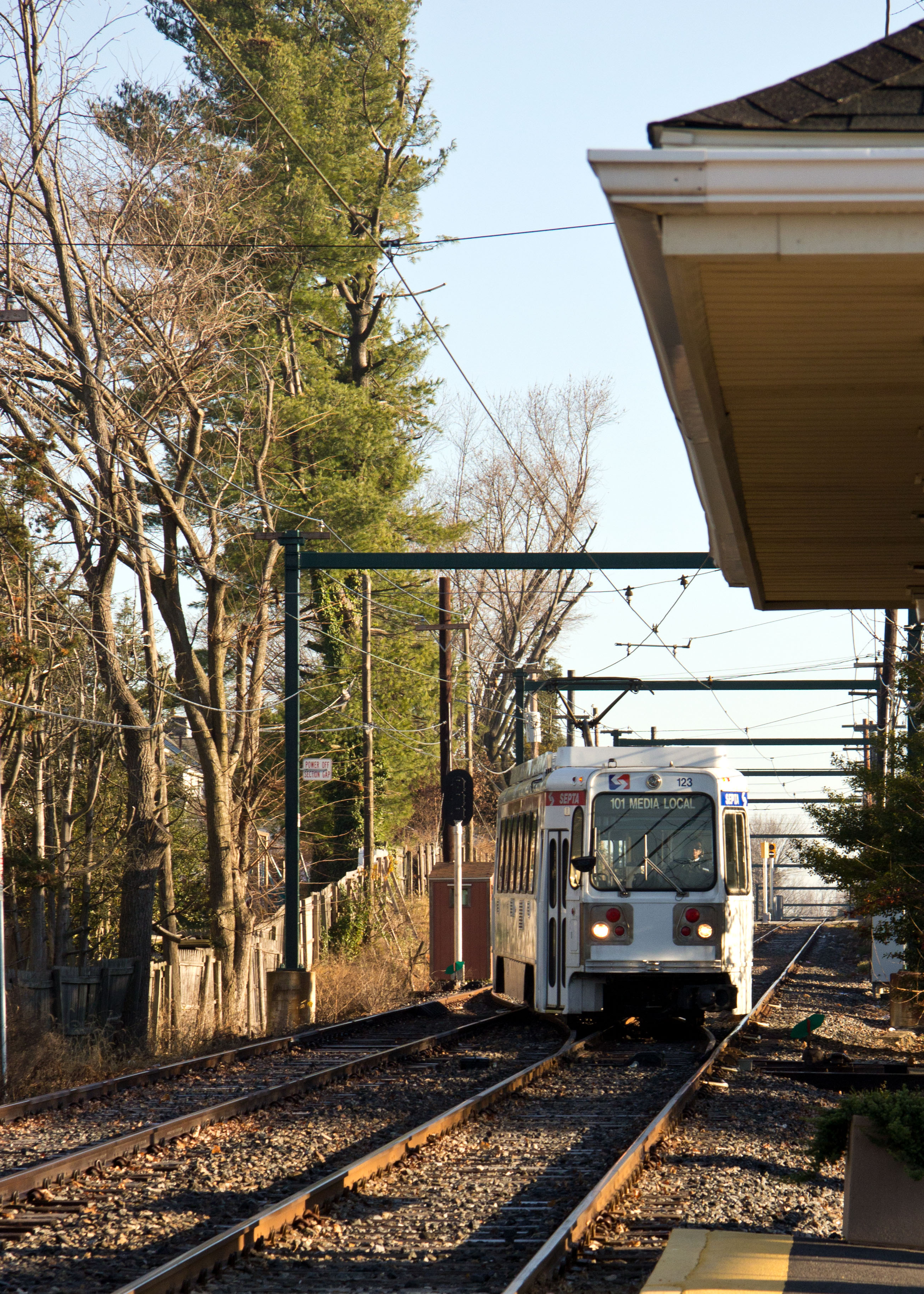 The Media Local crosses over to single track territory at Woodland Ave on SEPTA’s 101 line. The track to the left is a stub track for occasional storage.